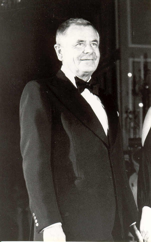 Photo of actor Glenn Ford.